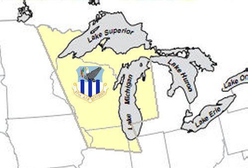 Map of ADC 37th Air Division 1951-1959